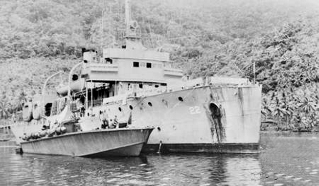 A U.S. Navy Elco PT boat anchored, at Kona Kope, next to the Asheville class patrol gunboat, USS Tulsa (PG-22), at their PT base at Kona Kope. The PT boat had just returned from rescuing four crew members of A16-245, a 6 Squadron Lockheed Hudson piloted by 415152 Flight Lieutenant (Flt Lt) Ray Kelly. Flt Lt Kelly was forced to ditch the Hudson in the bay when poor weather delayed them long enough for the fuel to run out. Note the serial number 22 and the U.S. Navy ensign on Tulsa's bow. Launched in August 1922 and commissioned in 1923 as patrol gunboat 22 (PG-22), the USS Tulsa served with America's Asiatic Fleet before being forced from the Philippines by the Japanese advance. Refitted in Sydney in October 1942, she escorted PT boats along the New Guinea coast at the start of the Buna-Gona offensives before being based at Kone Kope at Milne Bay from November 1942, serving alternatively as a PT boat tender, supply ship escort and patrol craft.